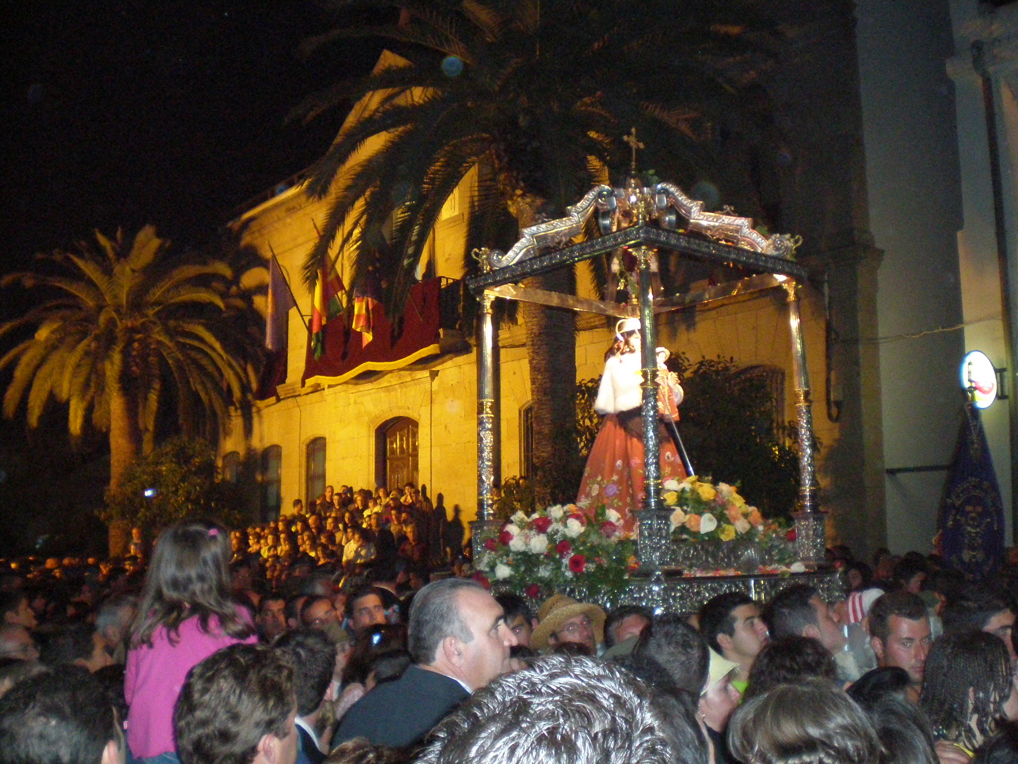 entrada de nuestra serora de gracia de alcantarilla en la plaza en belalcazar (córdoba)